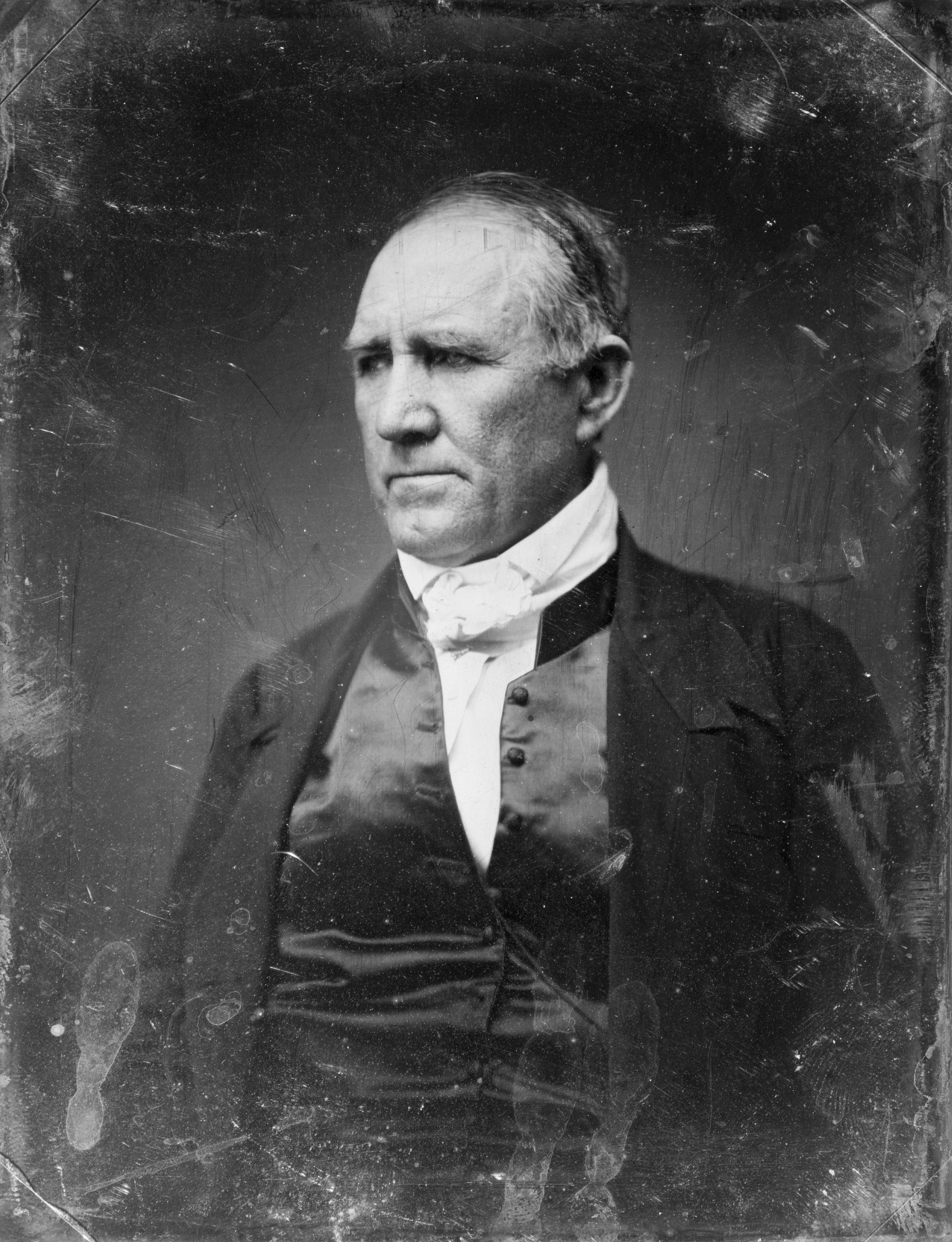 (Photoshopped verson of: Title: Sam Houston, half-length portrait, three-quarters to the left, in civilian dress, clean shaven. Scratched on back of plate: 233; Sam Houston, Texas. Hallmark: Rinhart 46. Identification from lithograph by Konrad in Huber, History of Texas, 1856, v. 2, frontis. Facing the light / H. Pfister. Washington : Smithsonian Institution press, 1978, p. 327. Transfer; U.S. War College; 1920; (DLC/PP-1920:46153). Forms part of: Daguerreotype collection (Library of Congress). Produced by Mathew Brady's studio. This is a derivative of File:SHouston.jpg, a public domain image which was originally uploaded by User:Green Ape.